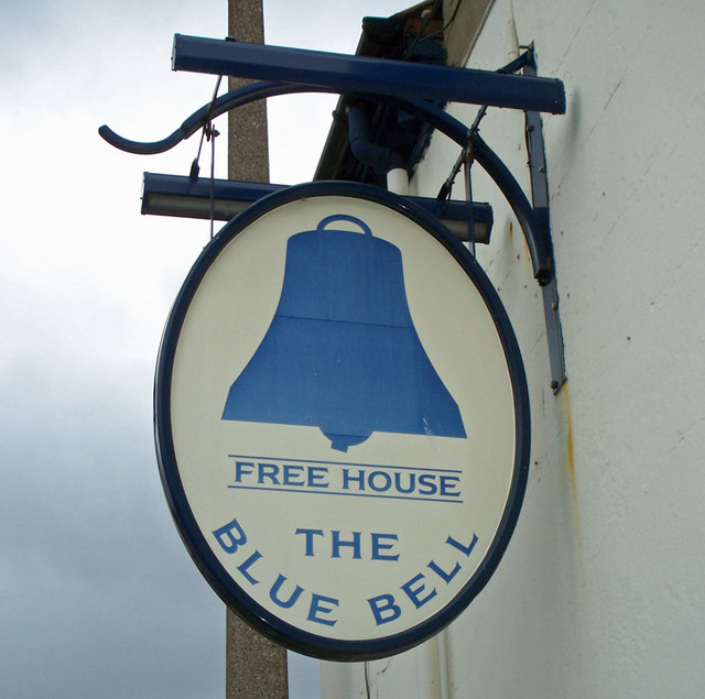 The Sign of the Blue Bell. The Blue Bell is situated on the corner of Barrow Road and Whitecross Street 142089